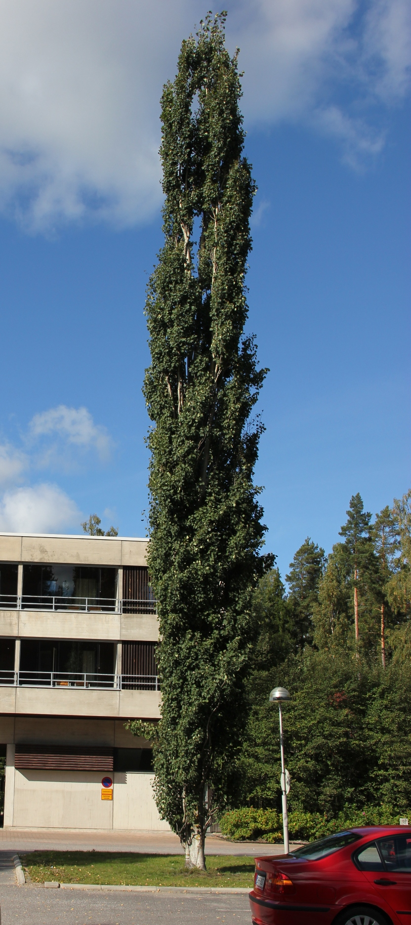 Populus tremula 'Erecta' in Siuntio Spa, Siuntio, Finland